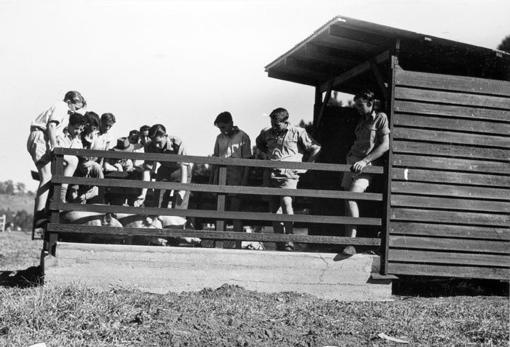 Pig studies at Nambour Rural State School.